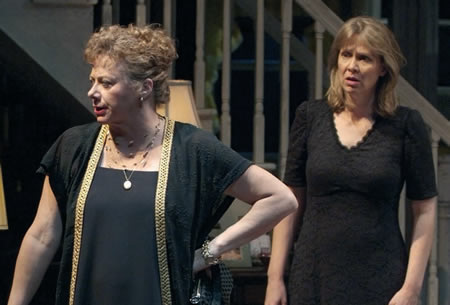 Steppenwolf Theatre ensemble members Rondi Reed (left) and Amy Morton in August: Osage County by Tracy Letts, directed by Anna D. Shapiro.